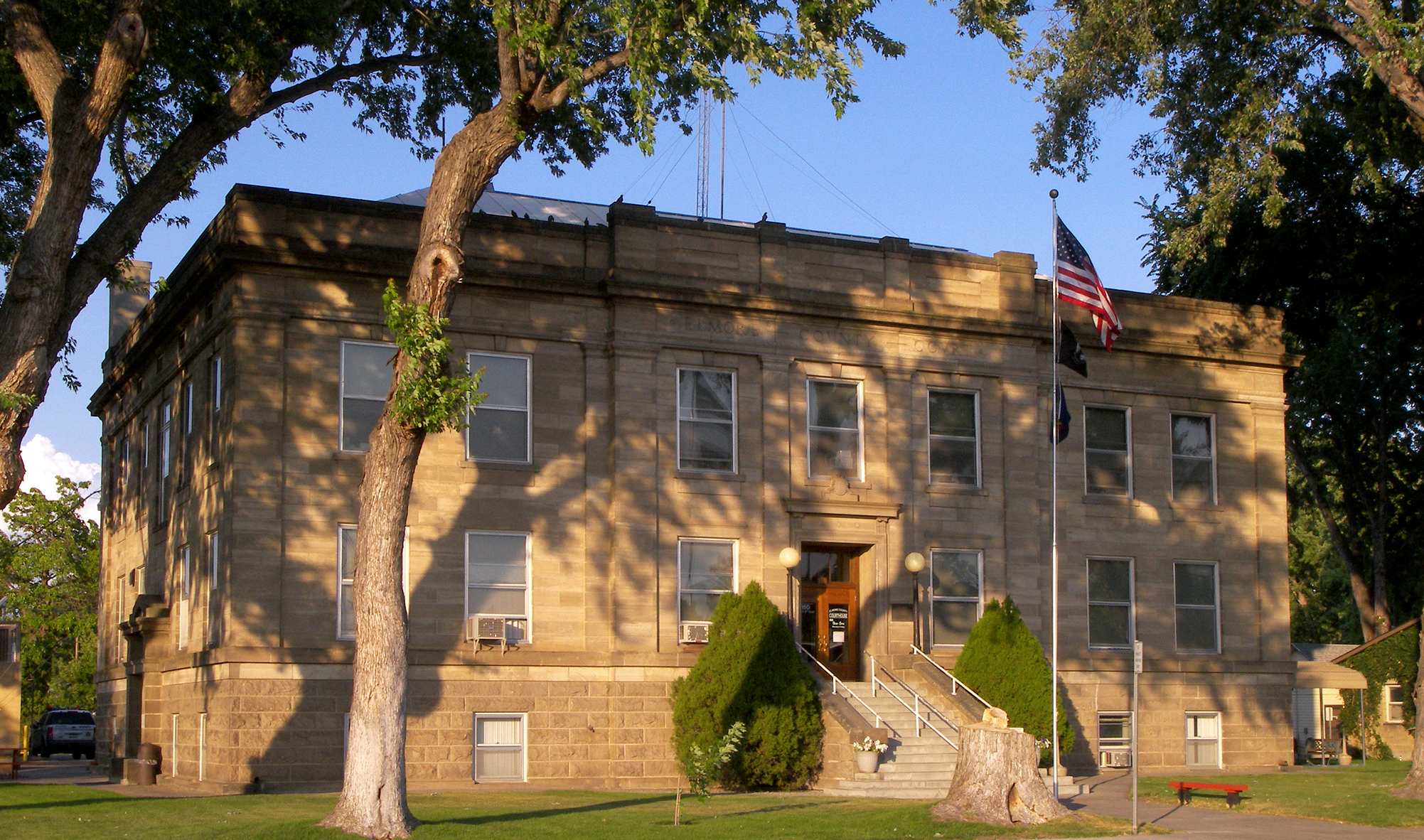 The Elmore County, Idaho courthouse located at 150 South 4th, Mountain Home, Idaho. The building was listed on the National Register of Historic Places on September 22, 1987.